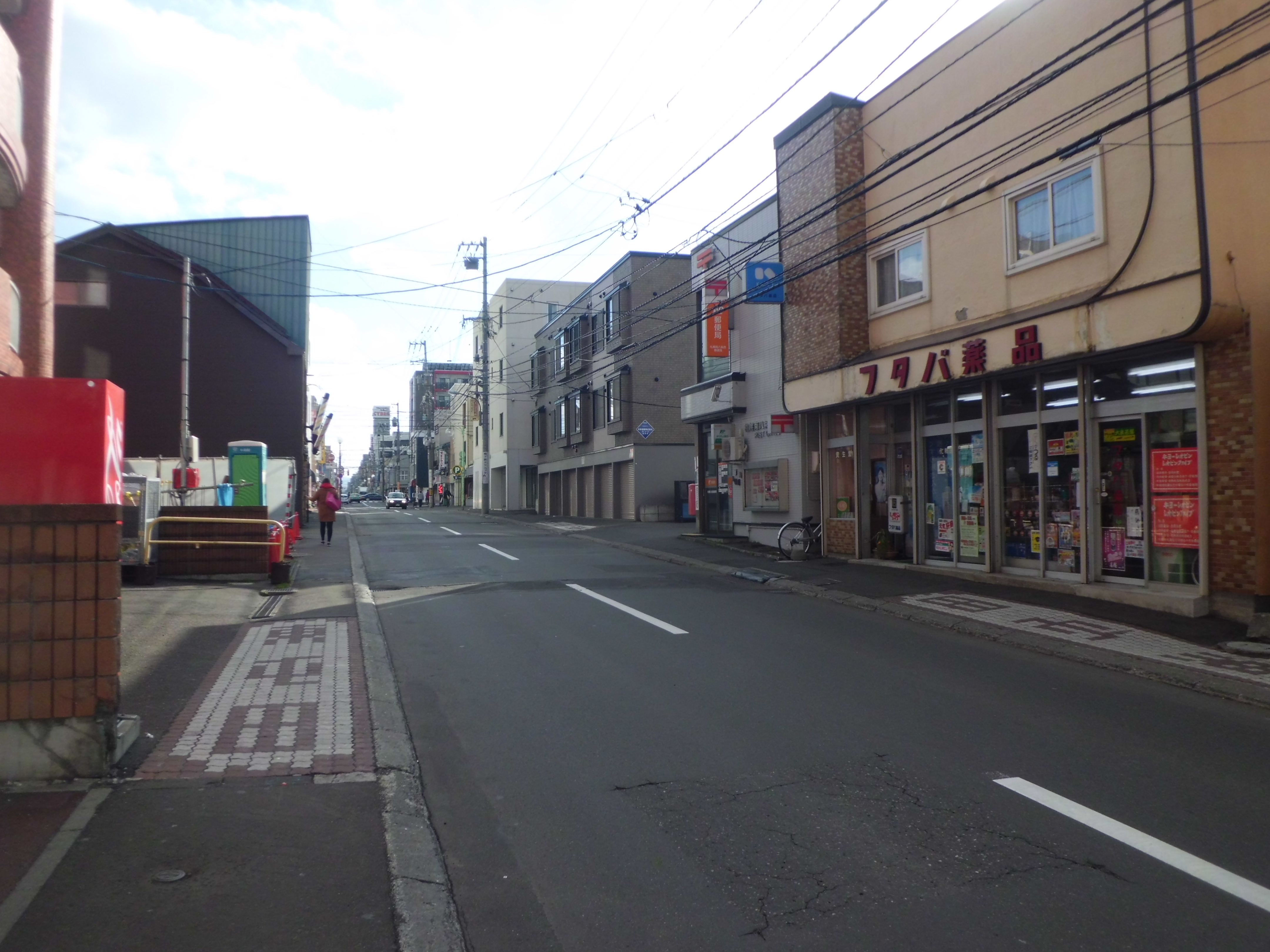 Higashi-Tonden-dori Avenue